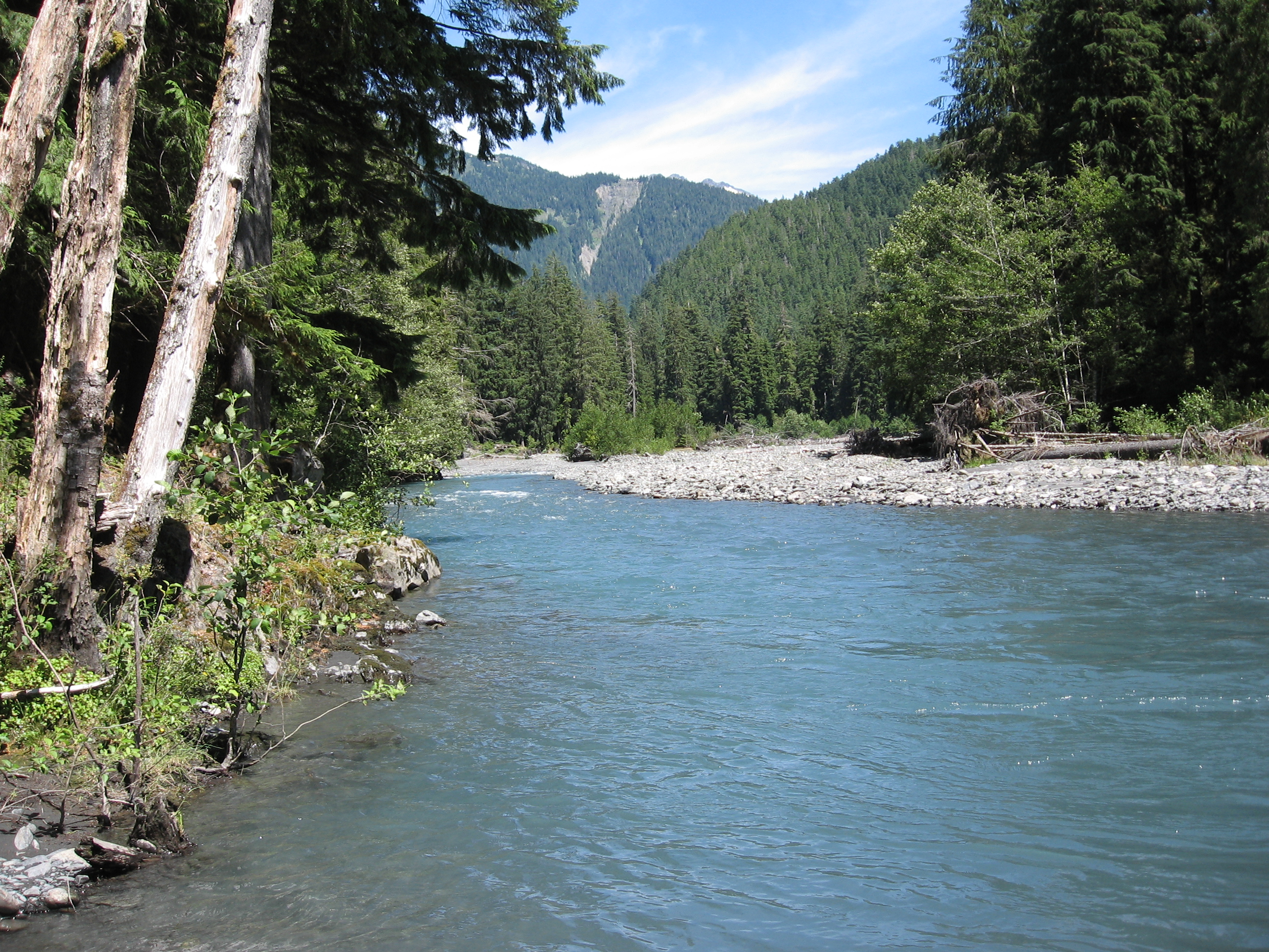 The Queets River in Washington State. Taken by me, Nathan La Porte, on July 25, 2006.